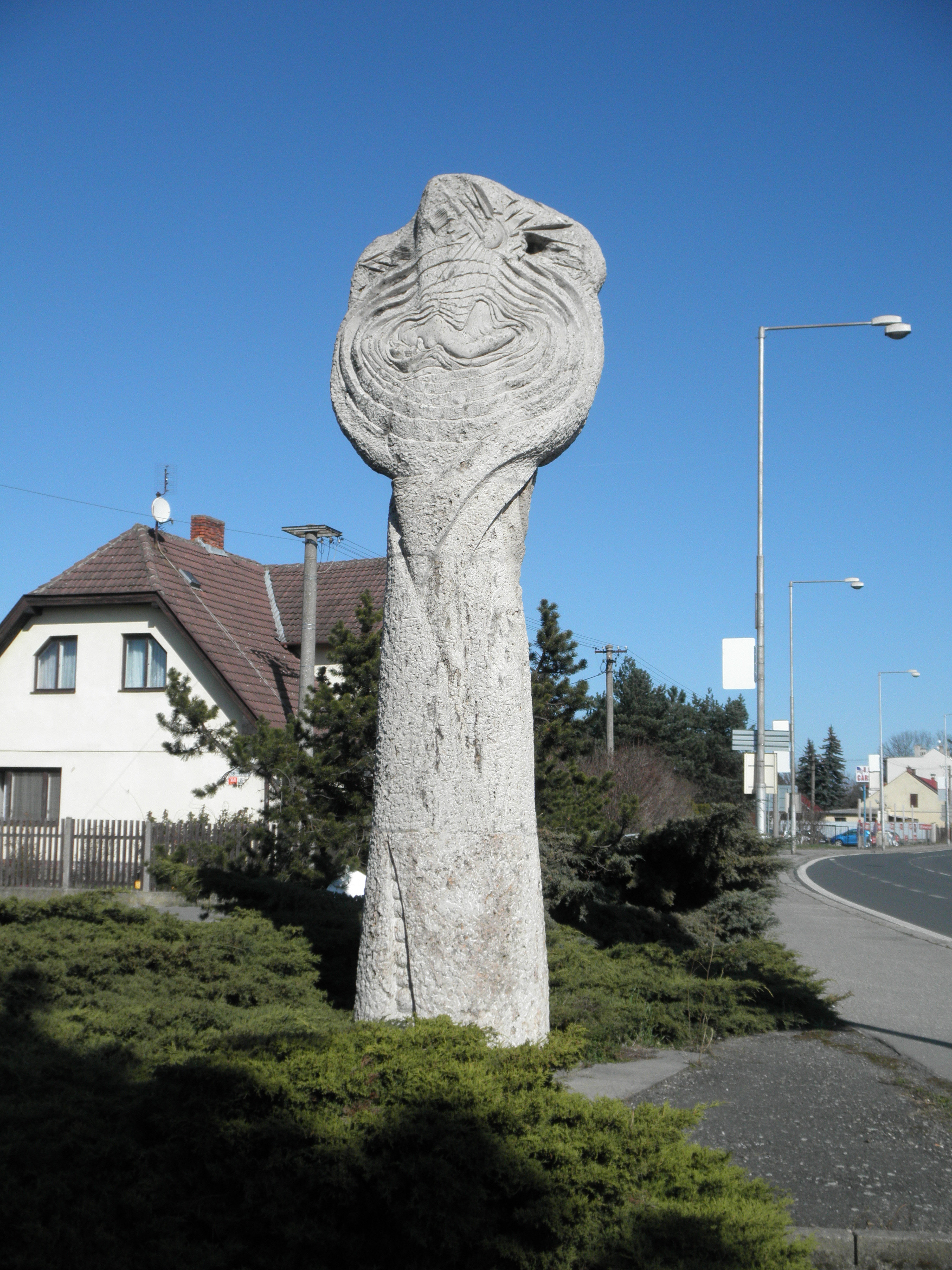 Statue Haná in Lipenská street in Olomouc. The statue was made by Rudolf Chorý in 1988.